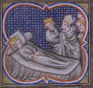 Louis IX of France